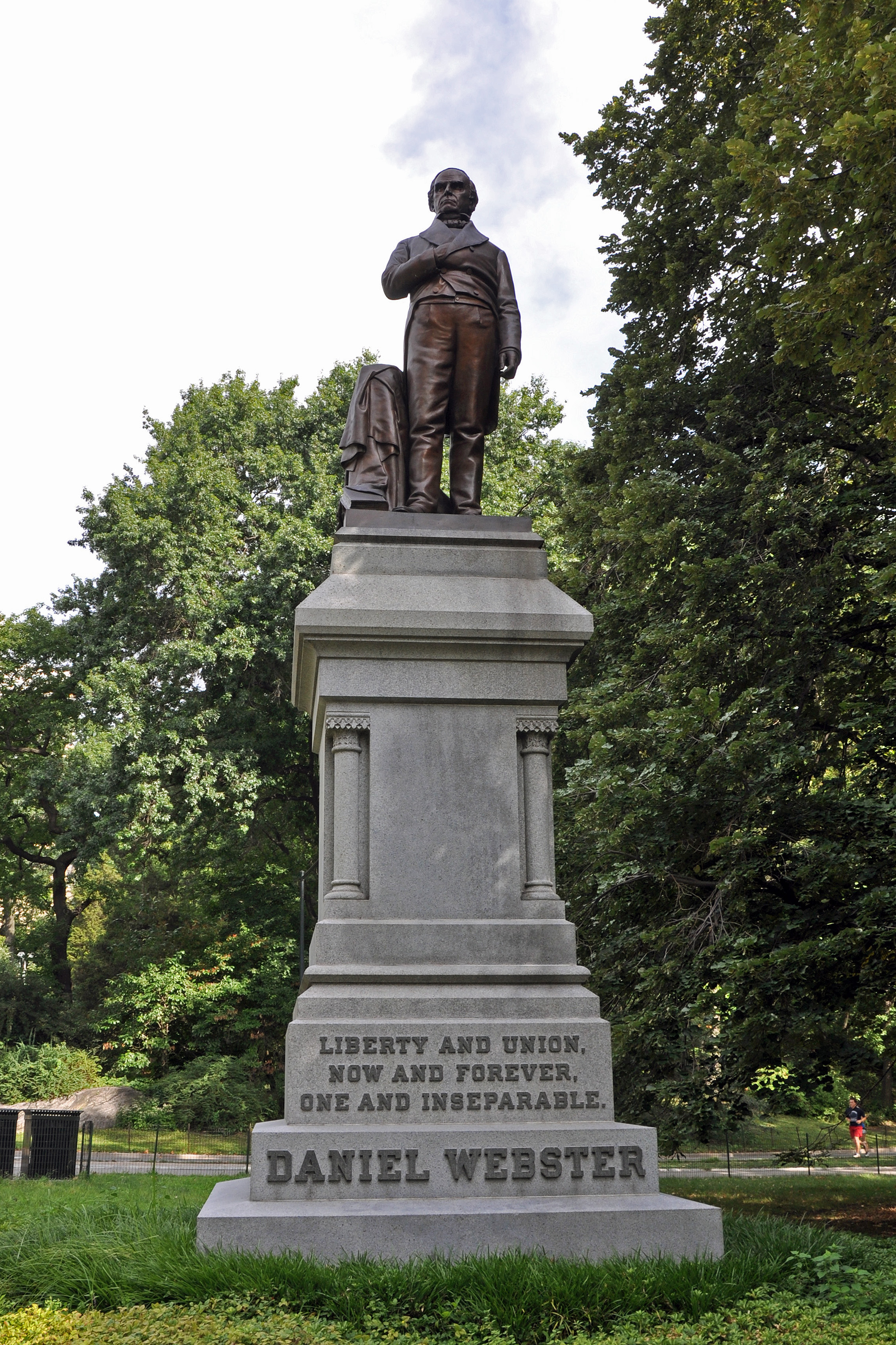 Statue of Daniel Webster in Central Park, New York City.